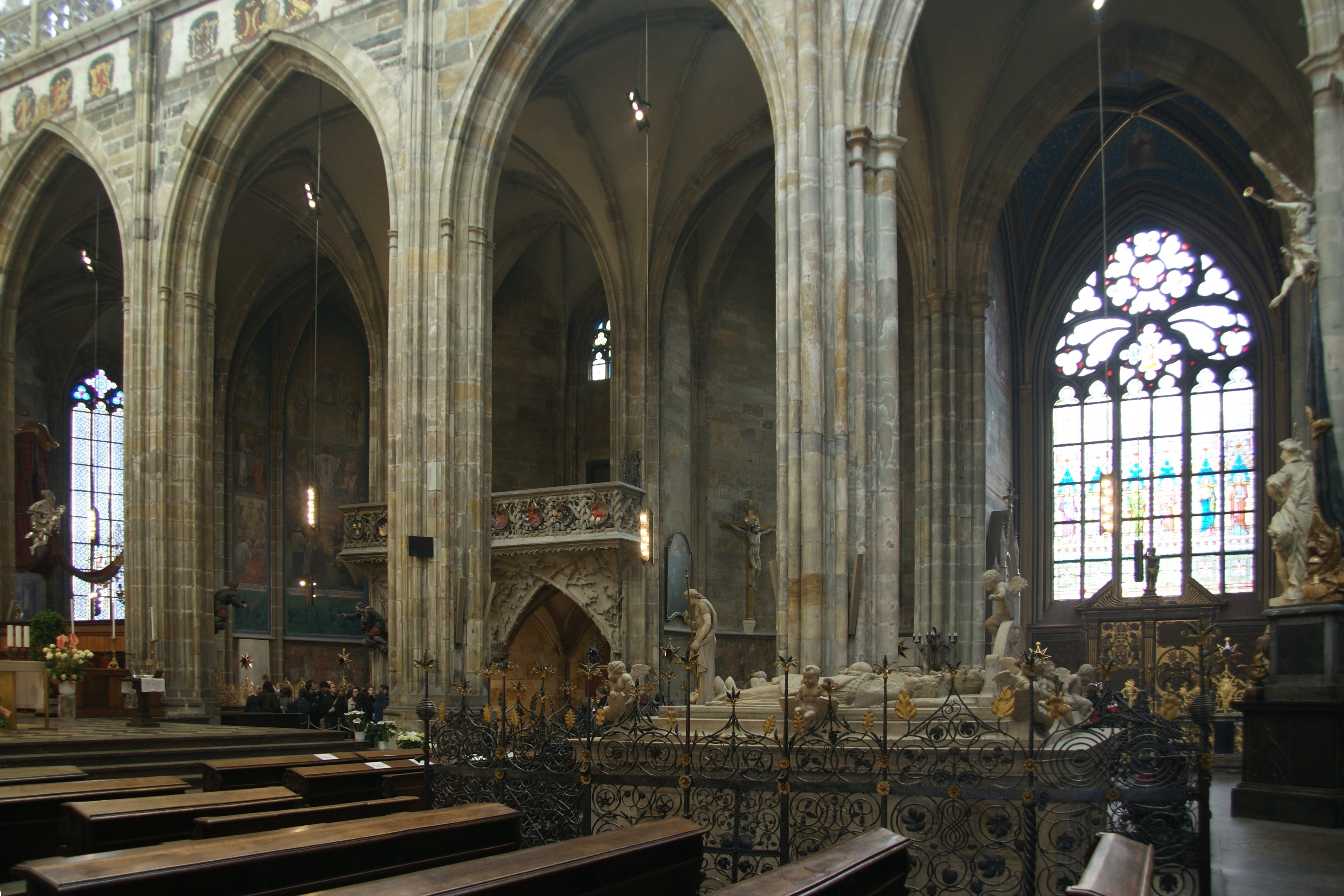 St. Vitus Cathedral (interior), Prague